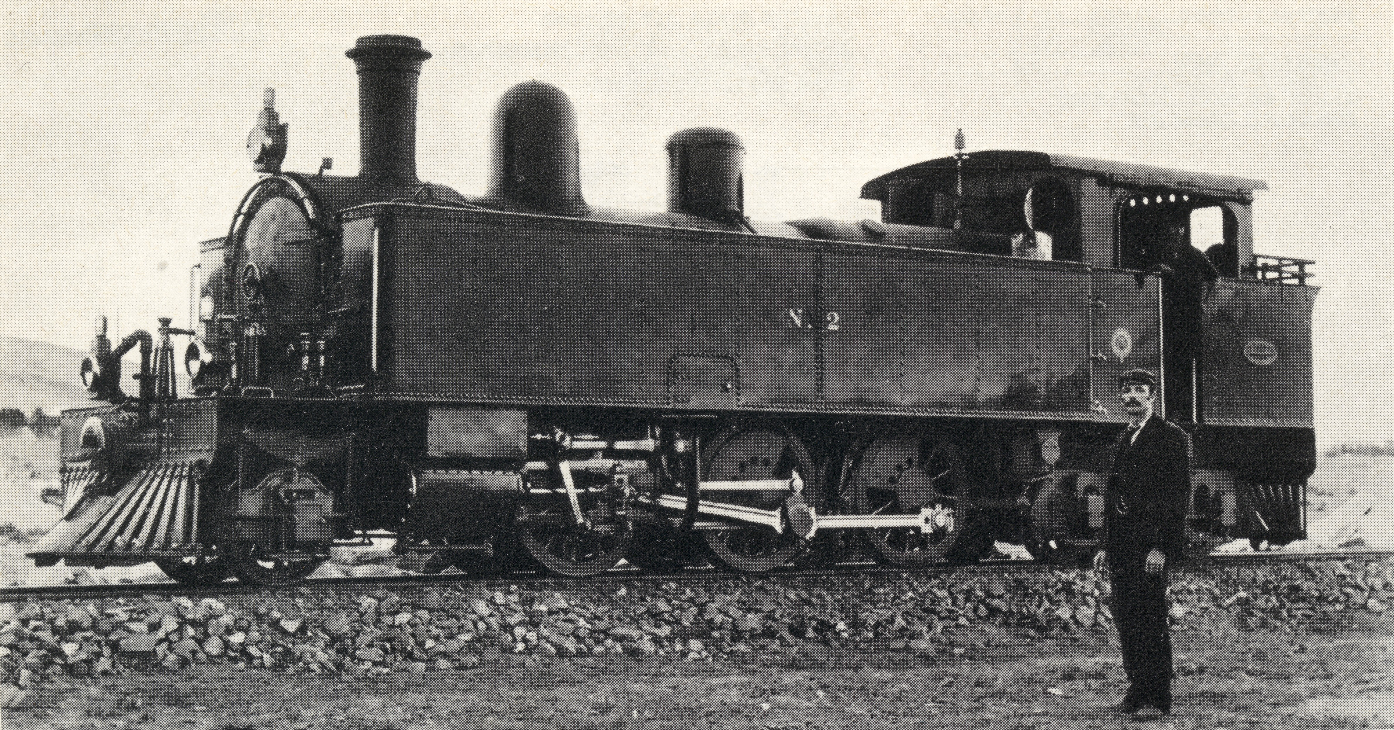 PPR 55 Tonner no. 2, CSAR Class D no. 210, SAR Class D no. 57